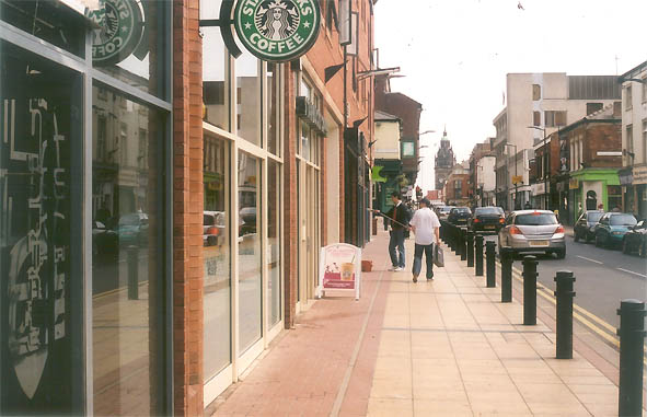 Division Street, Devonshire Quarter, Sheffield, England